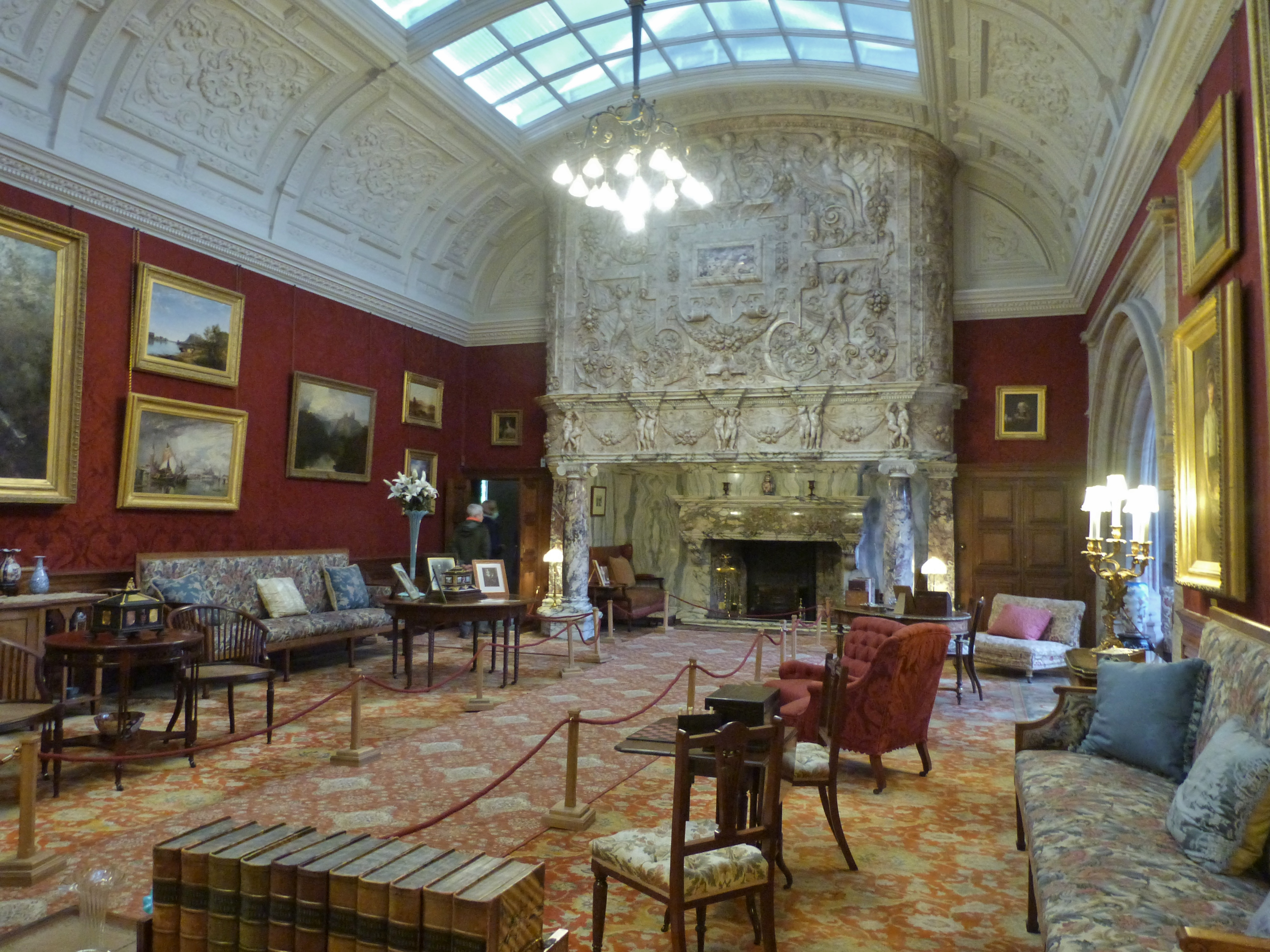 Cragside, Northumberland - The Drawing Room